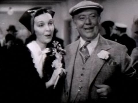 Screenshot of ZaSu Pitts and Guy Kibbee from the trailer for the film Going Highbrow (1935).